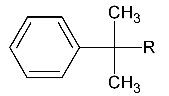 Structure formula of a cumyl group